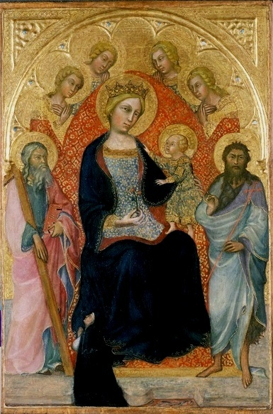 Madonna and Child and Saints